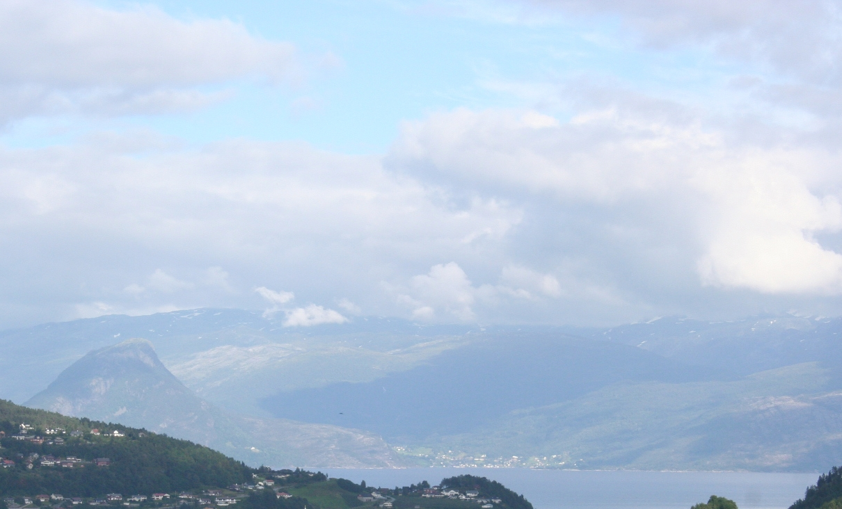 Herand seen from Norheimsund, cropped version of Norheimsund 2.jpg